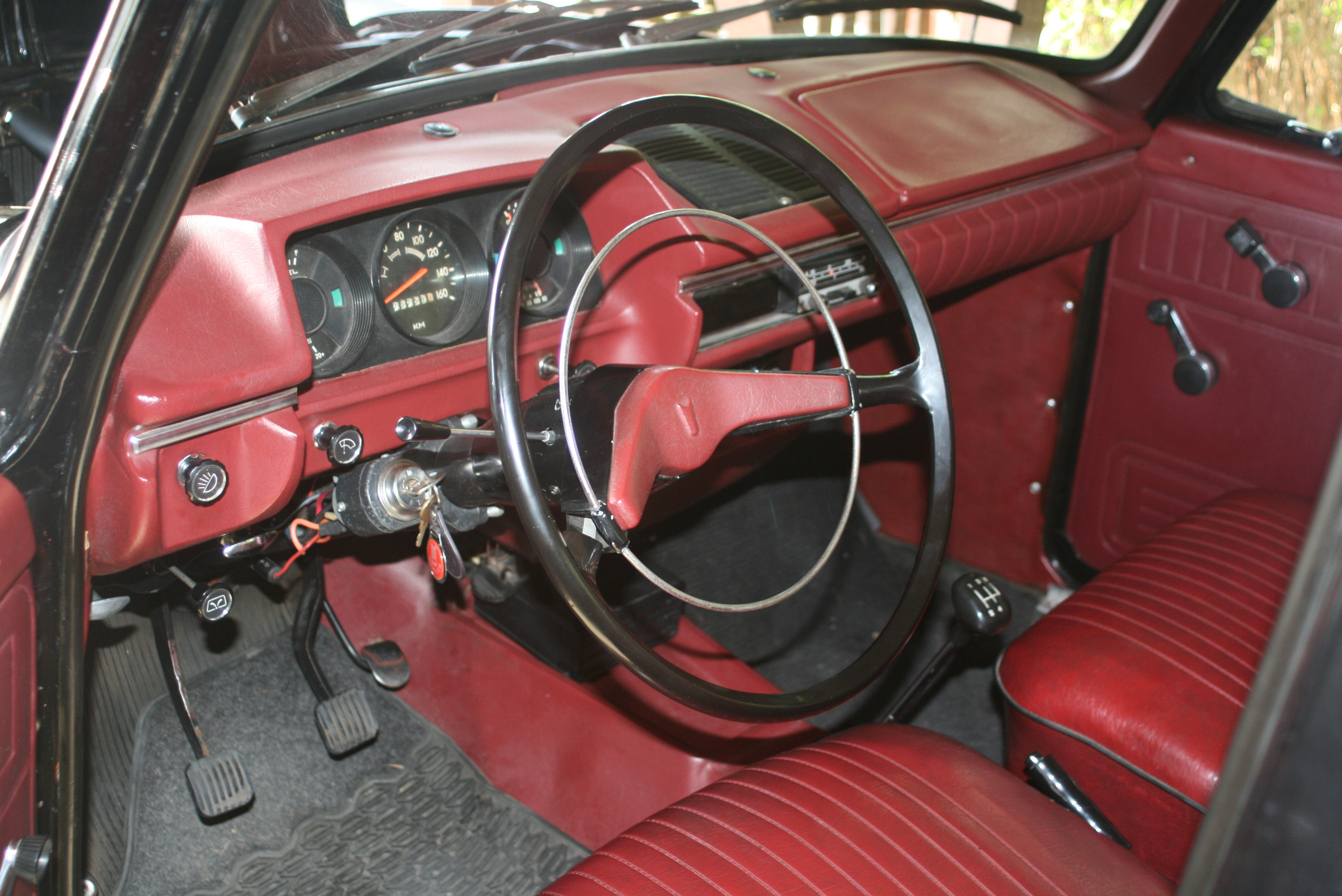 Moskwitch Typ 412IE, Year 1975, dashboard, interieur